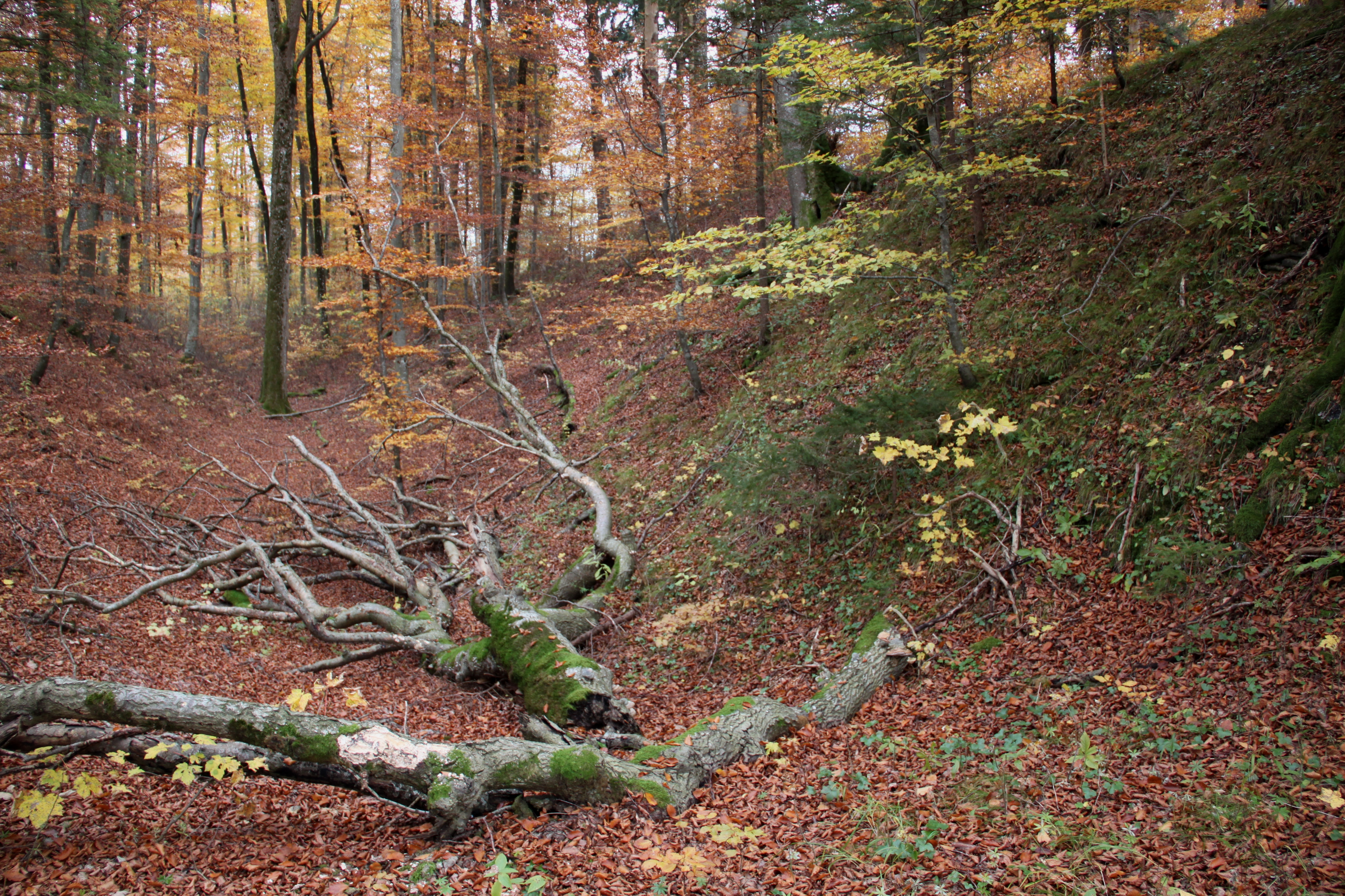 Roman entrenchment near Grünwald (Bavaria, Germany): walls (left, right) and ditch (middle)